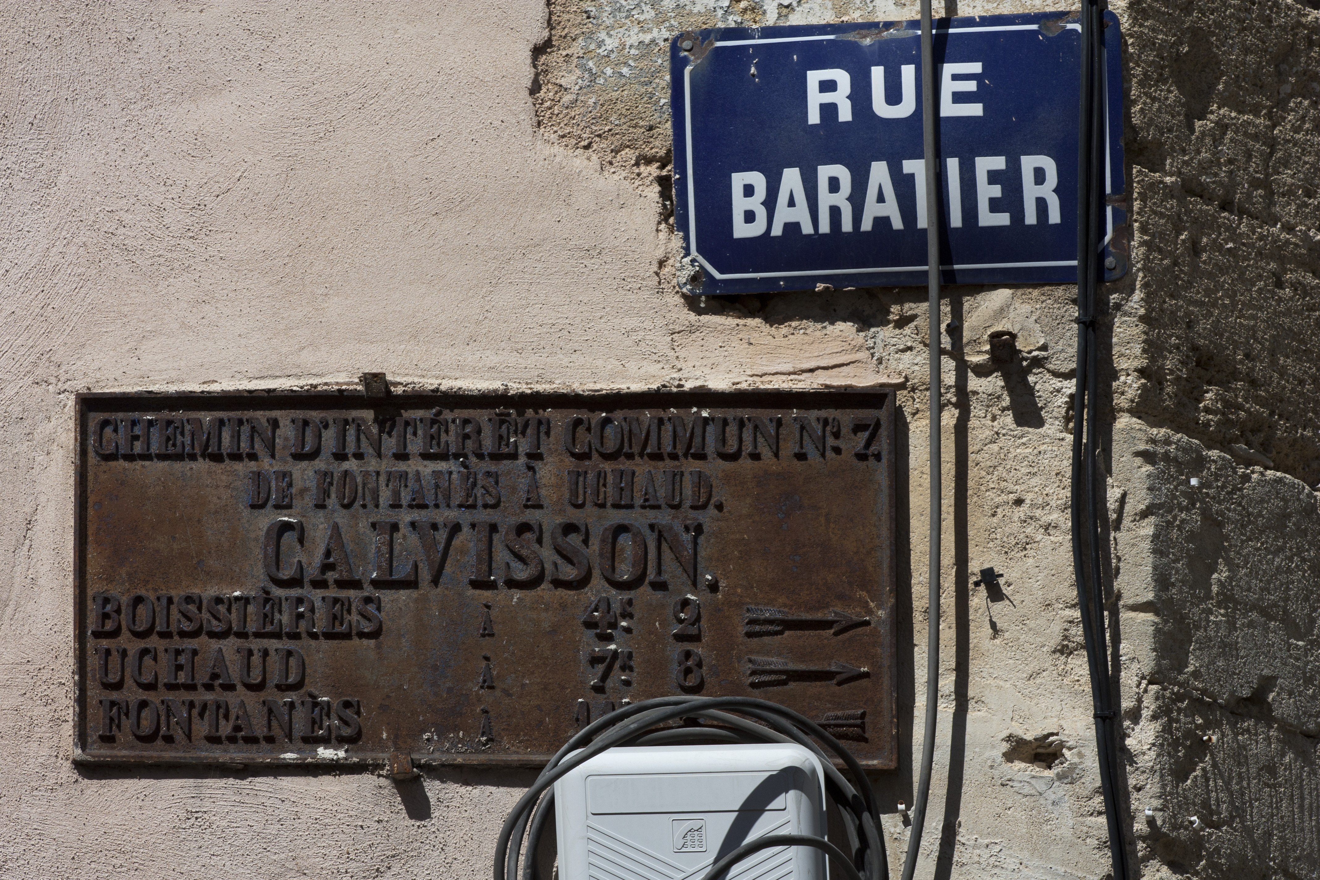 Plaques of country road, dating from the creation of the municipal roads network under the Second Empire before its merge with the departmental network.